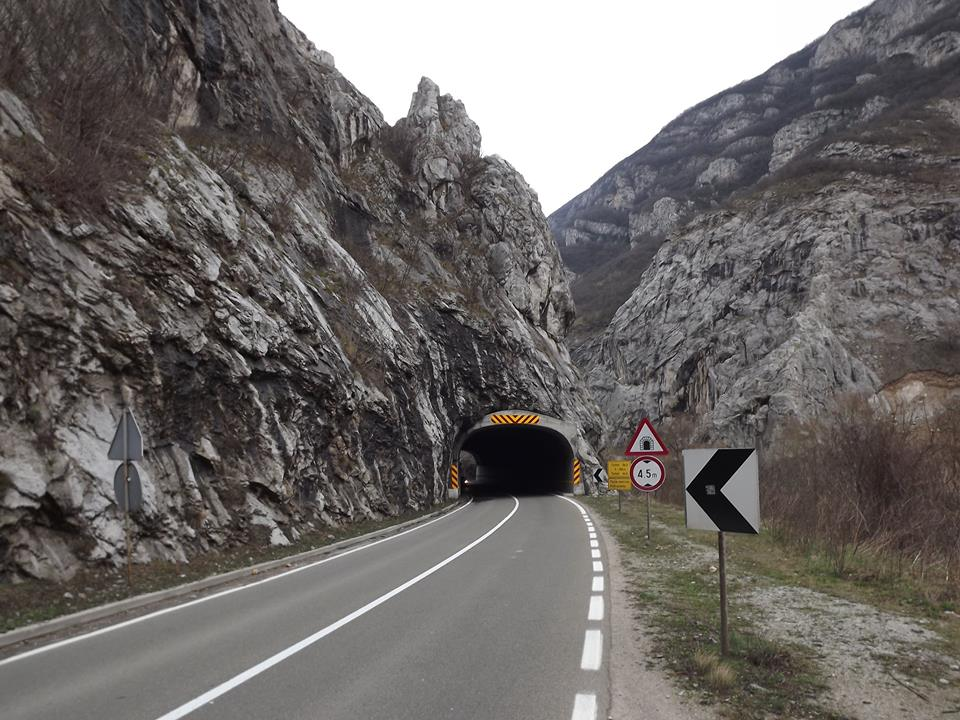 Sićevo Gorge 2016.